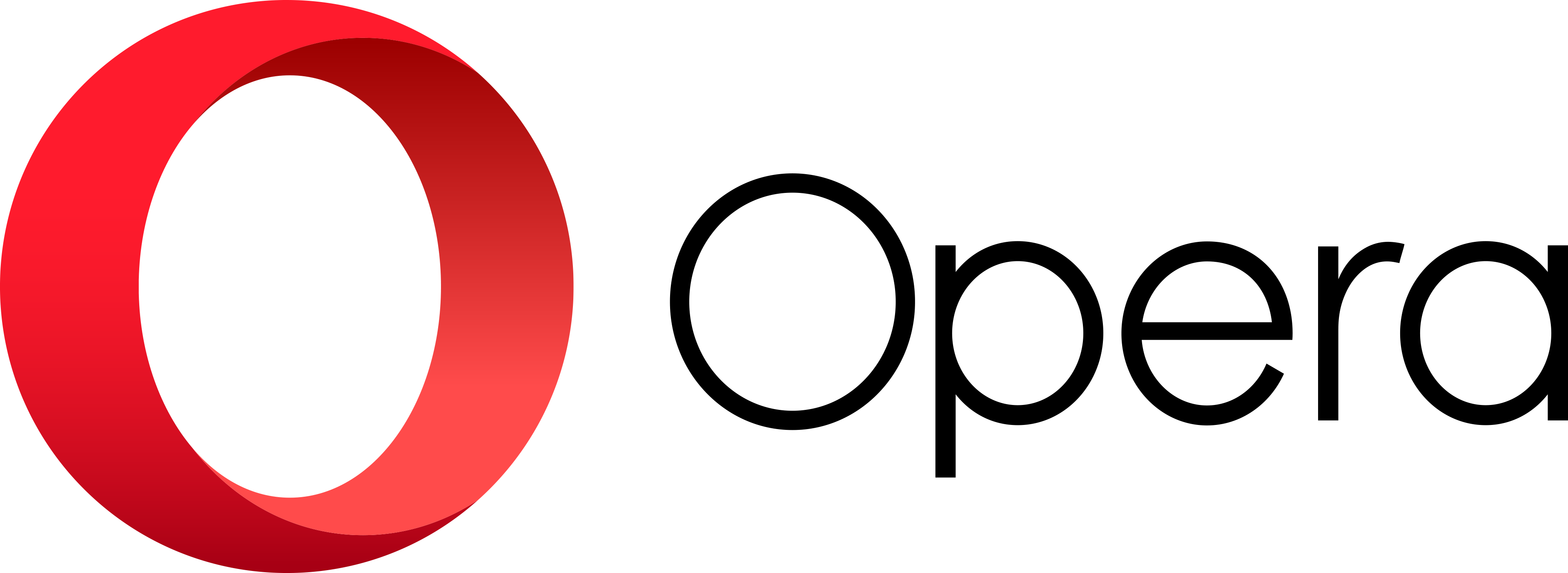 Opera Software corporate logo